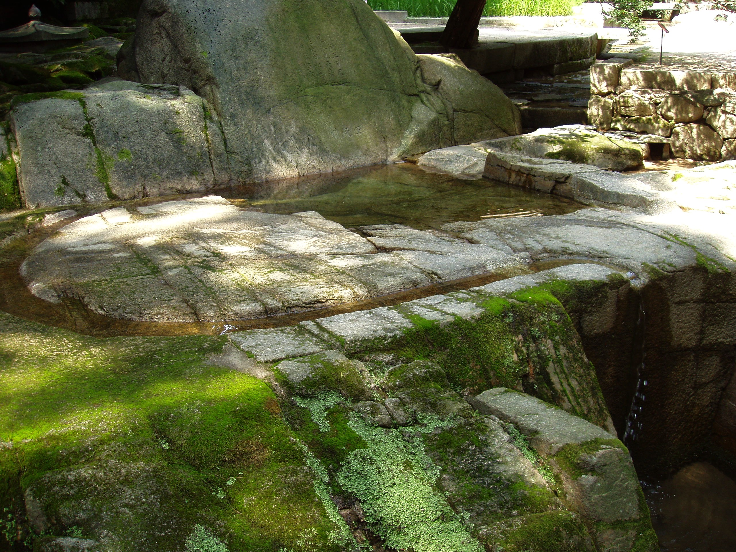 Ongnyucheon, Changdeokgung - Seoul, Korea.